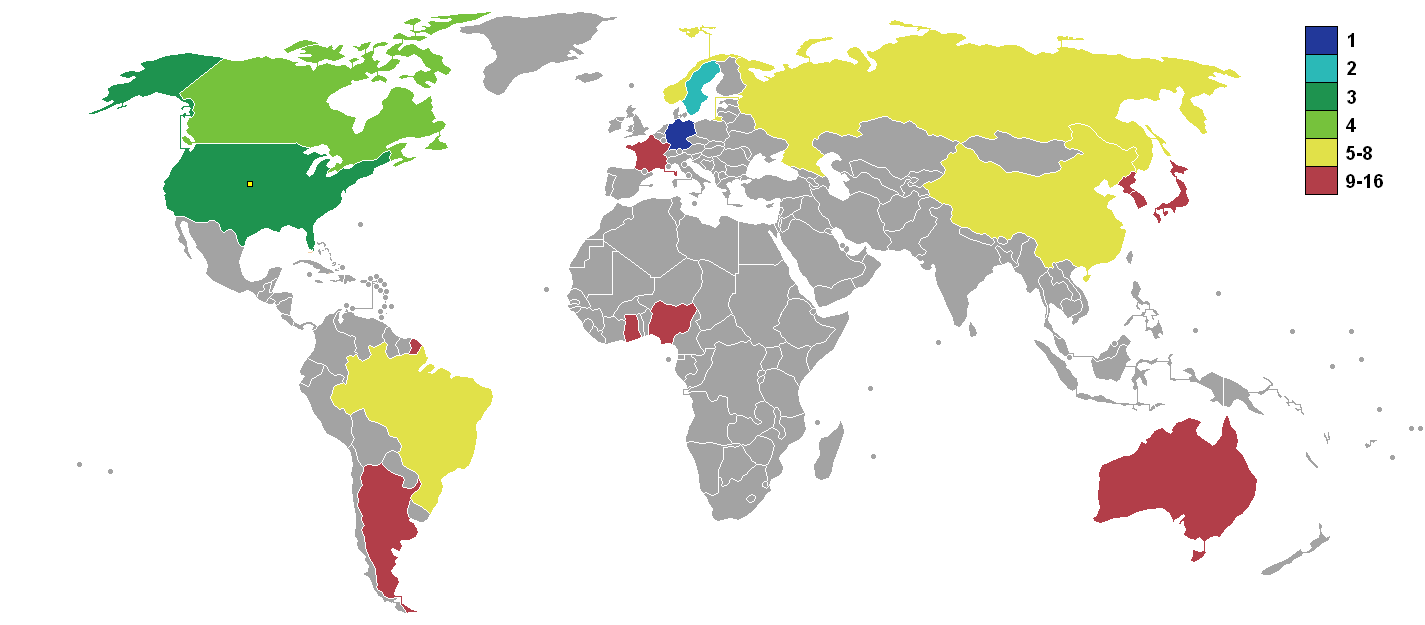 Final rankings of the teams on FIFA Womens World Cup 2003, showing: winner = dark blue runner-up = light blue third = dark green fourth = light green quarterfinals = yellow group stage = red yellow square = host nation (USA)